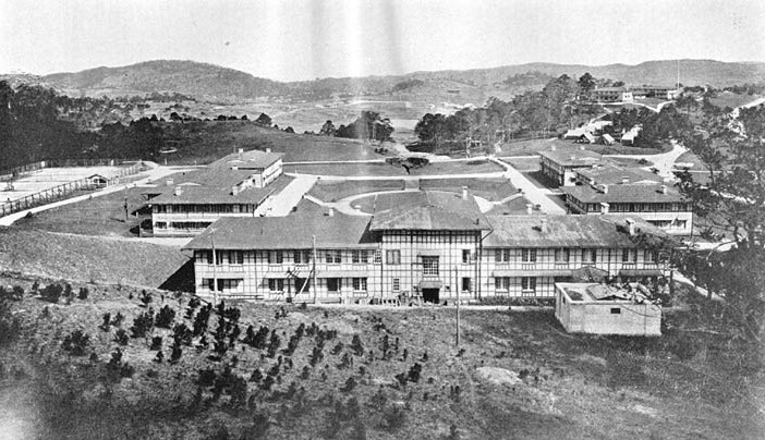 Summer Government Center of the Insular Government of the Philippines in Baguio City